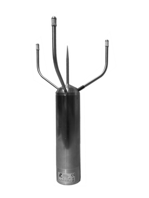 Ultrasonic windsensor 2D with 3 paths technology. (The central spike is not functional, it is only to discourage birds from building nests.)